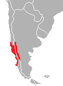 The range of Pudu puda in red.